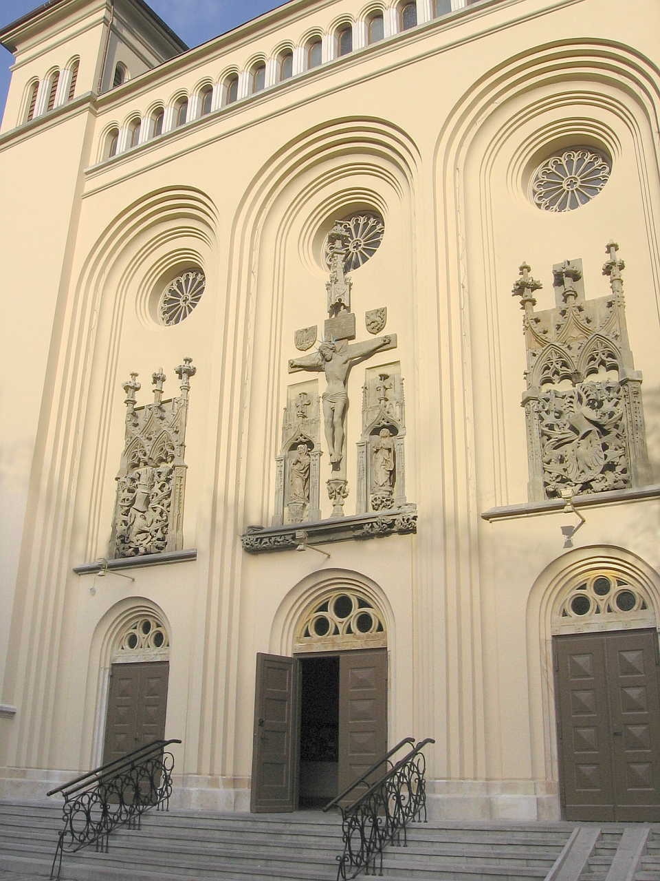 Wrocław, Poland: St.Joseph's Care Church - entry portal